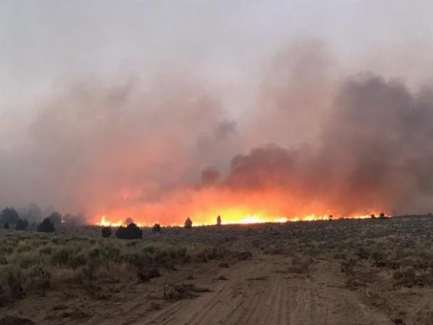 Cinder Butte Fire near Riley, Oregon at 1:00 pm on 5 Aug 2017